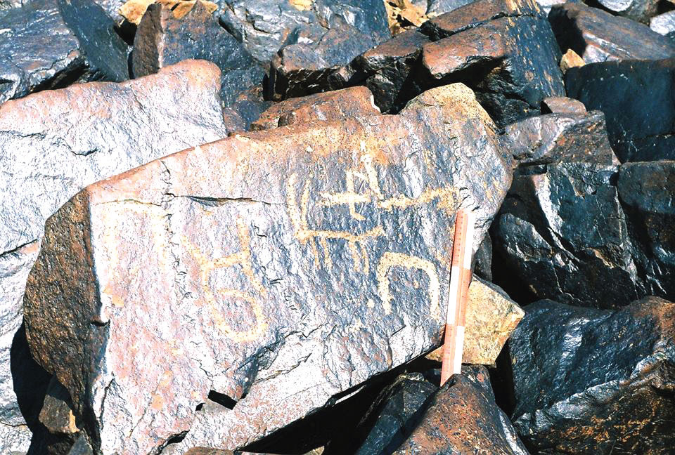 Ordubad Photo